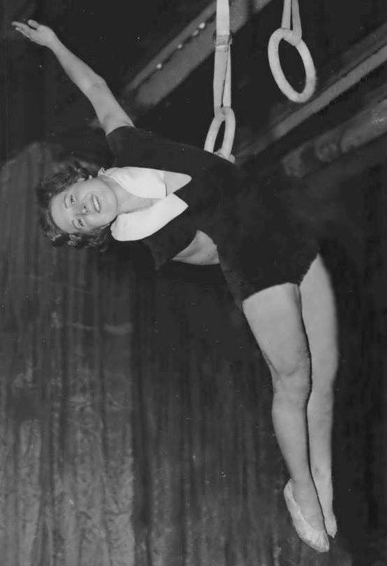 1936 Press Photo: Ada Lunardoni training for American Olympic team - gymnastics